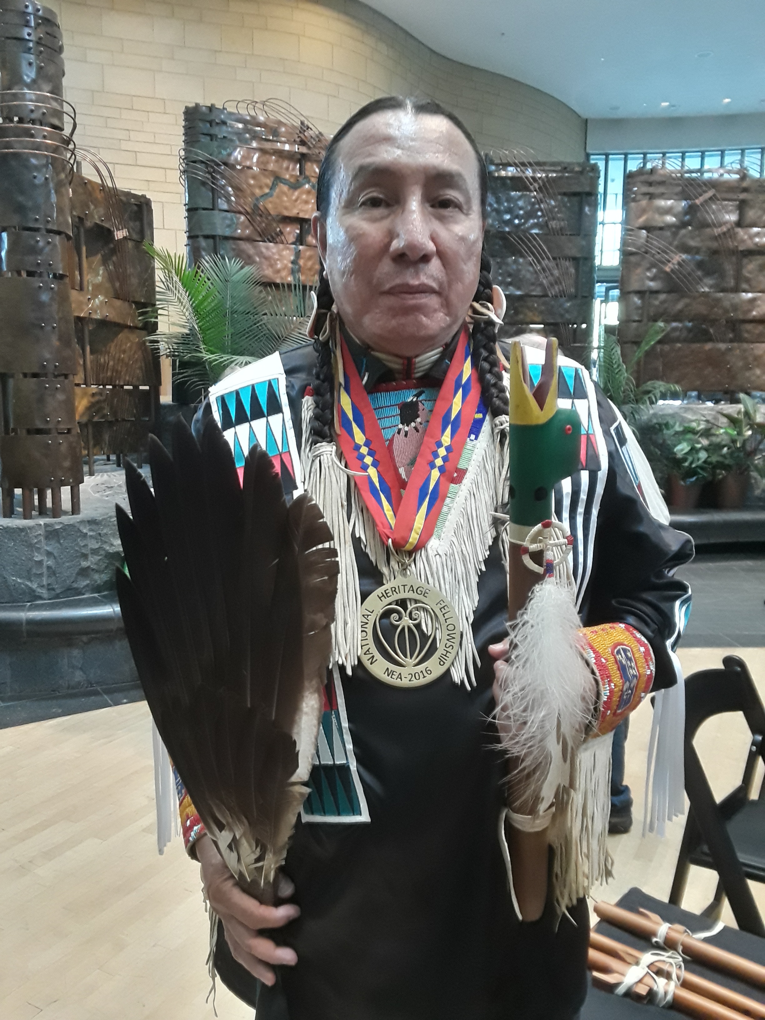 Bryan Akipa after a concert at NMAI